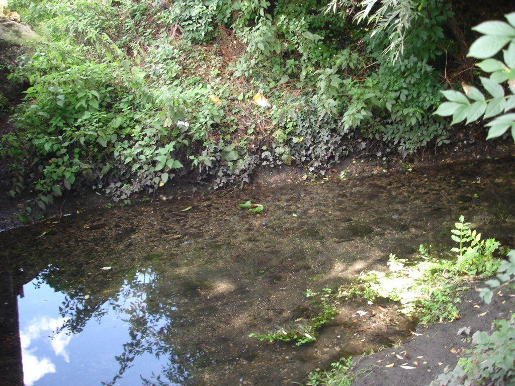 Image of Knapps Brook in Leagrave, Luton, Bedfordshire